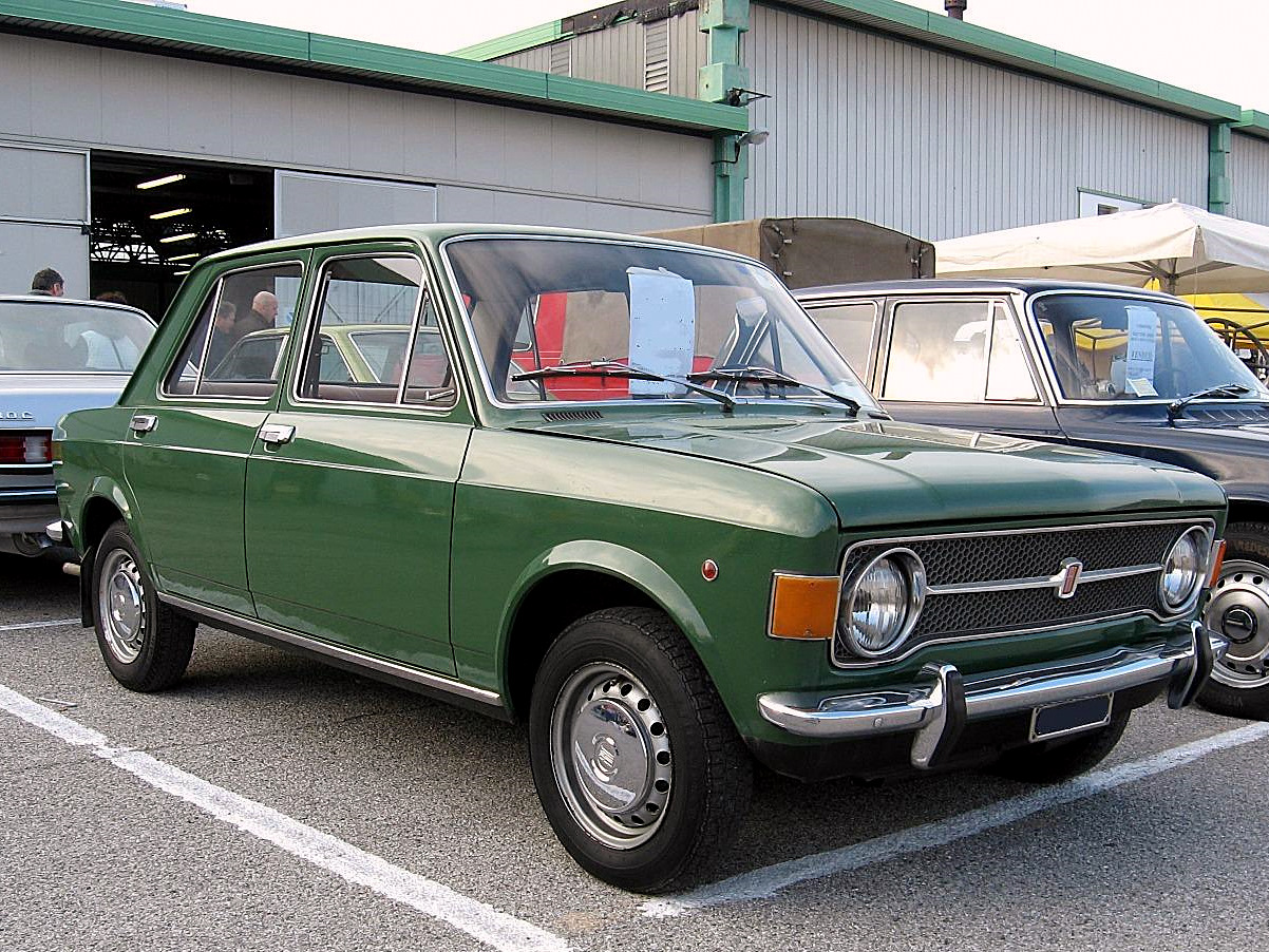 Subject:Fiat 128 Author:Luc106 Date:March 15th, 2007 Event:Old Timer Show 2008 Place/Country: Forlì, Italy I release all rights in the public domain.